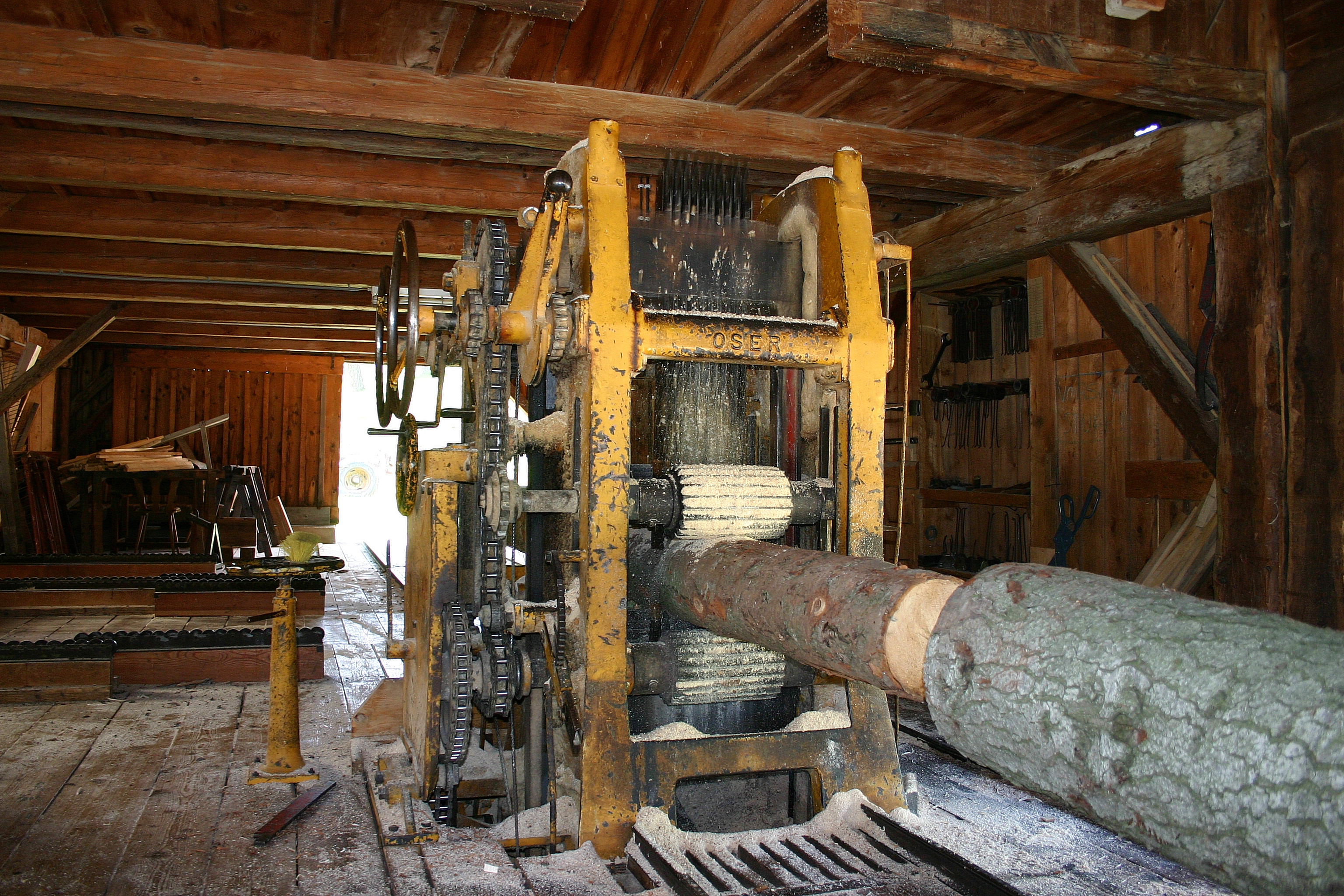 Old gang saw in a sawmill (Puchberg am Schneeberg)